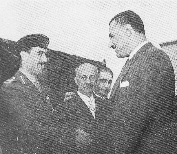 Jordanian Army Chief of Staff Ali Abu Nuwar (left) shaking hands with Egyptian President Gamal Abdel Nasser (right) in Egypt.